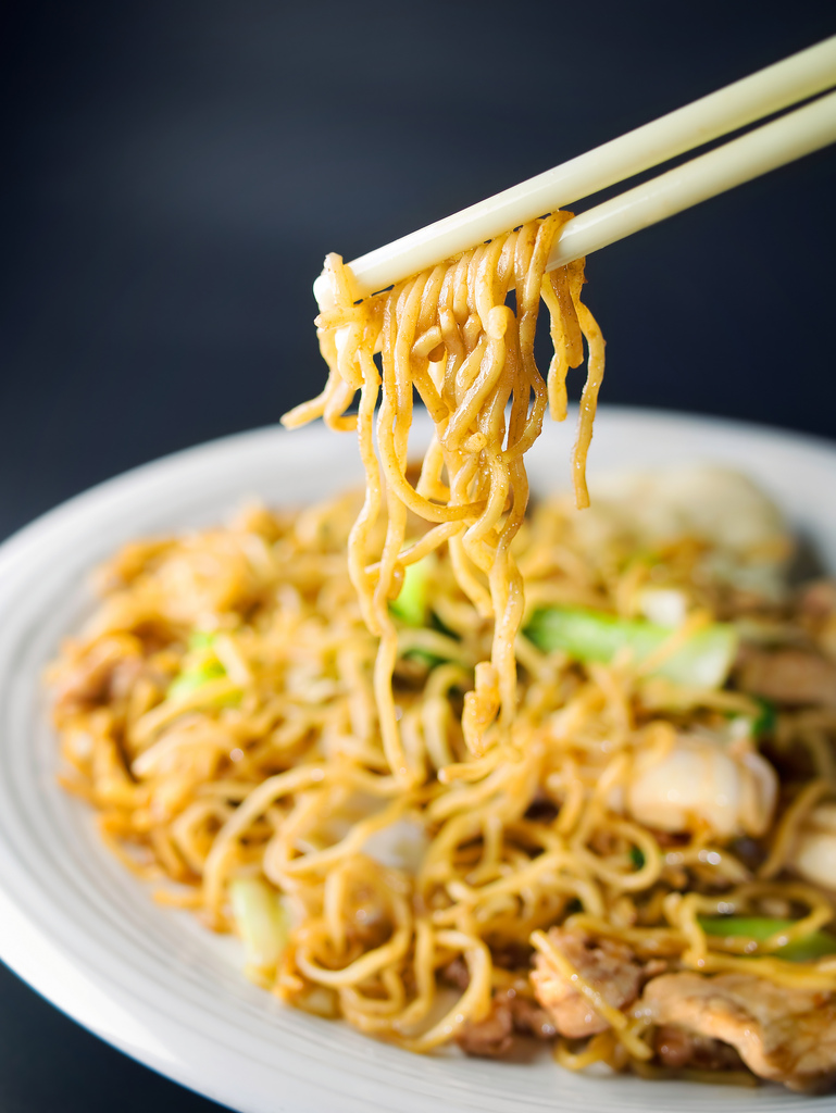 Strobist info : 1 Yongnuo YN-460 ( 1/1 power ) through DIY beauty dish at camera left. 1 Yongnuo YN-460 with DIY straw snoot below the frame, fill in from the right. white cardboard reflector at camera for even more fill. Trig wirelessly with CTR-301P.